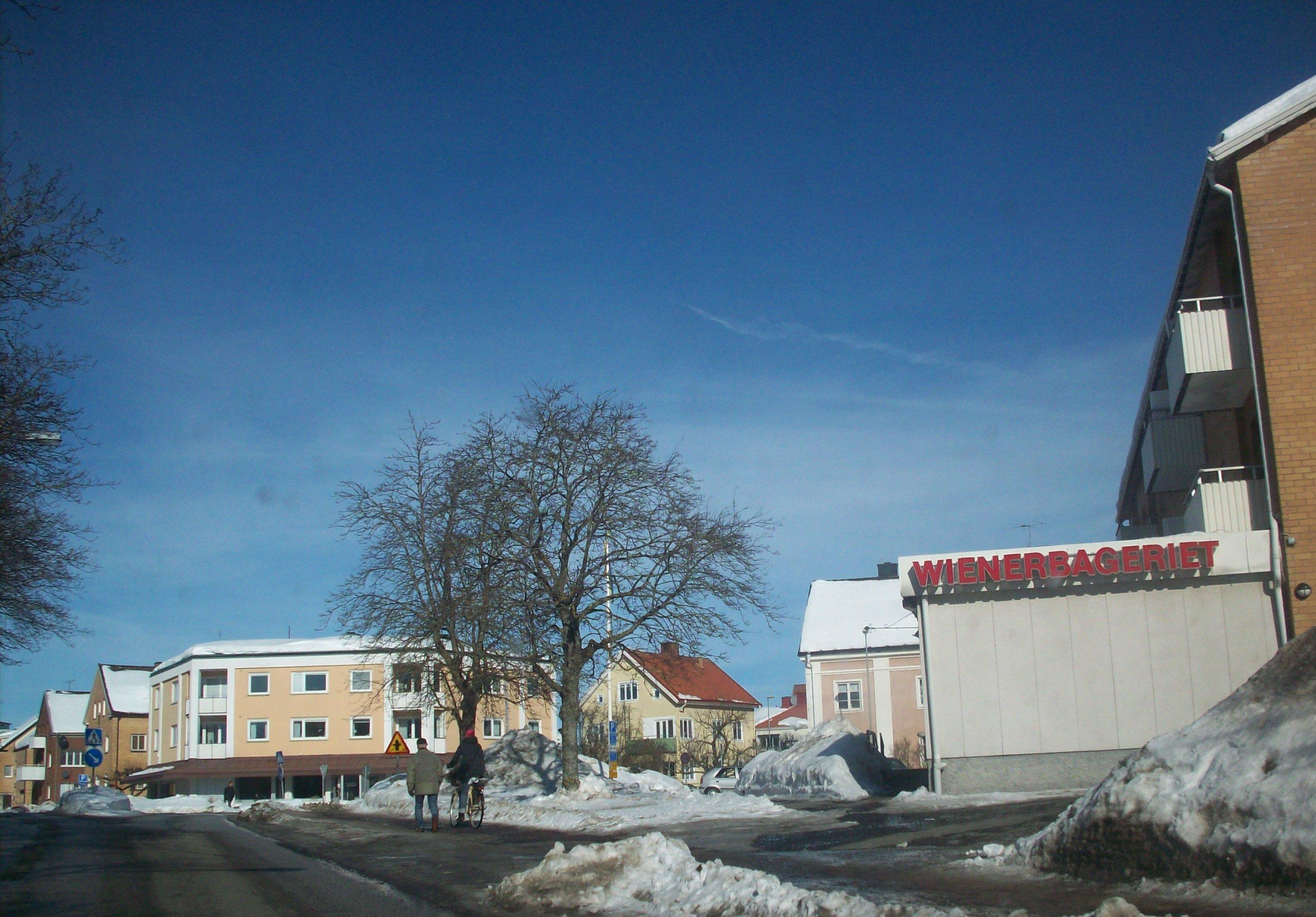 Snapshot of Käpplundabacken in Skövde